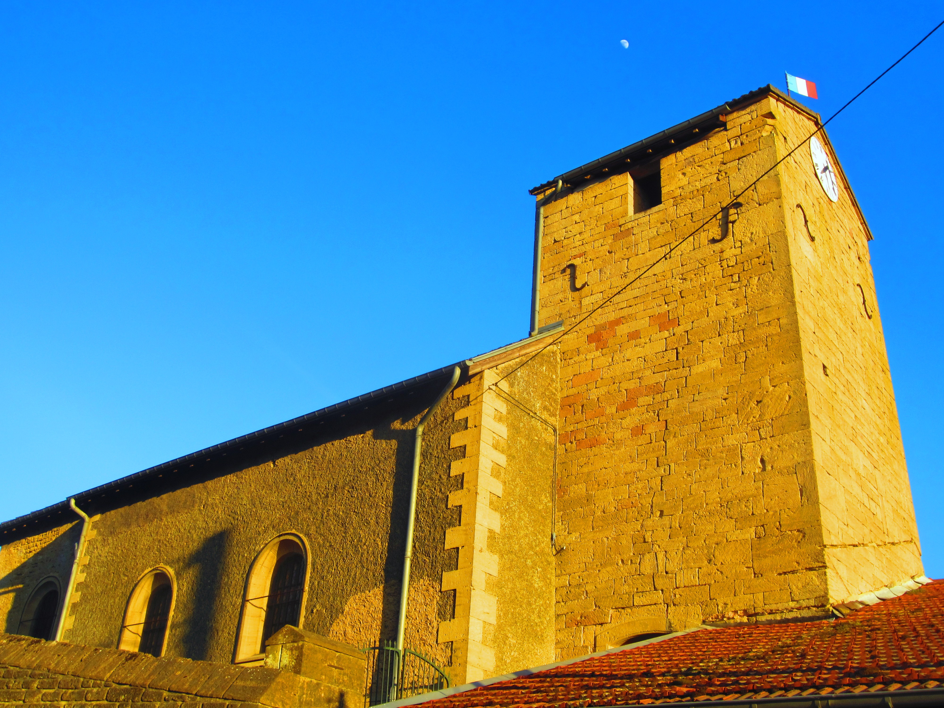 Villette 54 church